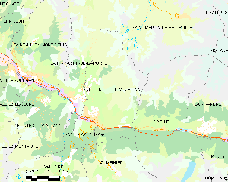 Map of French municipality Saint-Michel-de-Maurienne